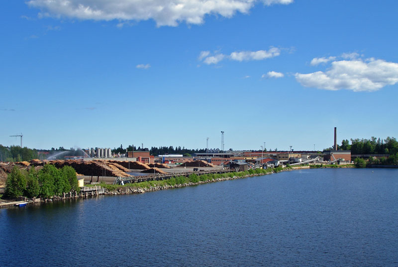 Holmsund sawmill in 2012, owned by SCA Timber.